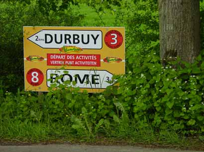 Durbuy - Rome sign in Belgium.